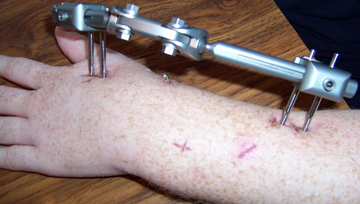 Picture taken by Dekkanar with a Kodak EasyShare DX7440 camera.